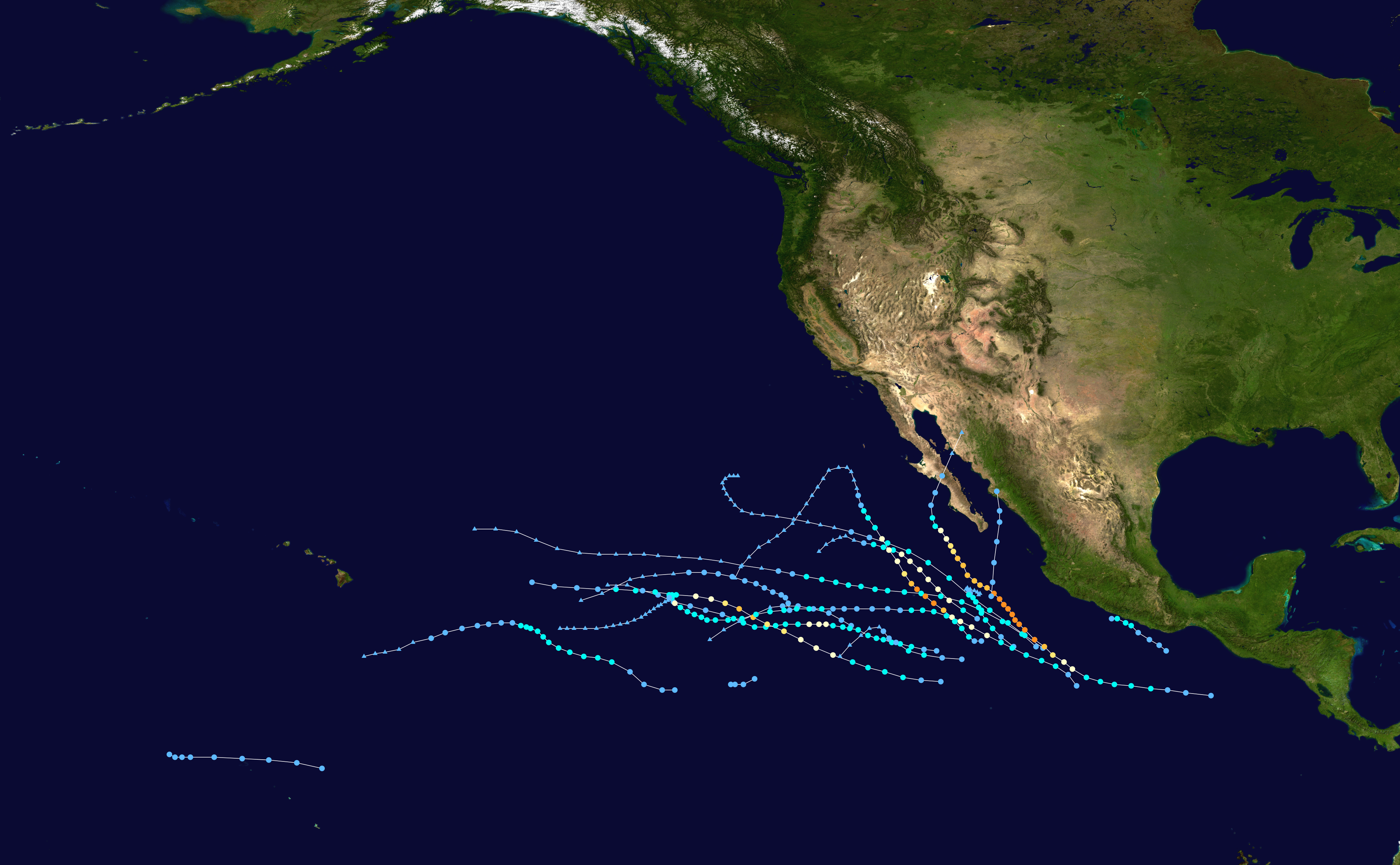 This map shows the tracks of all tropical cyclones in the 2004 Pacific hurricane season. The points show the location of each storm at 6-hour intervals. The colour represents the storm's maximum sustained wind speeds as classified in the Saffir-Simpson Hurricane Scale (see below), and the shape of the data points represent the type of the storm. Saffir–Simpson scale Tropical depression≤38 mph≤62 km/h Category 3111–129 mph178–208 km/h Tropical storm39–73 mph63–118 km/h Category 4130–156 mph209–251 km/h Category 174–95 mph119–153 km/h Category 5≥157 mph≥252 km/h Category 296–110 mph154–177 km/h Unknown Storm type Tropical cyclone Subtropical cyclone Extratropical cyclone / Remnant low / Tropical disturbance This map shows the tracks of all tropical cyclones in the 2004 Pacific hurricane season. The points show the location of each storm at 6-hour intervals. The colour represents the storm's maximum sustained wind speeds as classified in the Saffir-Simpson Hurricane Scale (see below), and the shape of the data points represent the type of the storm.